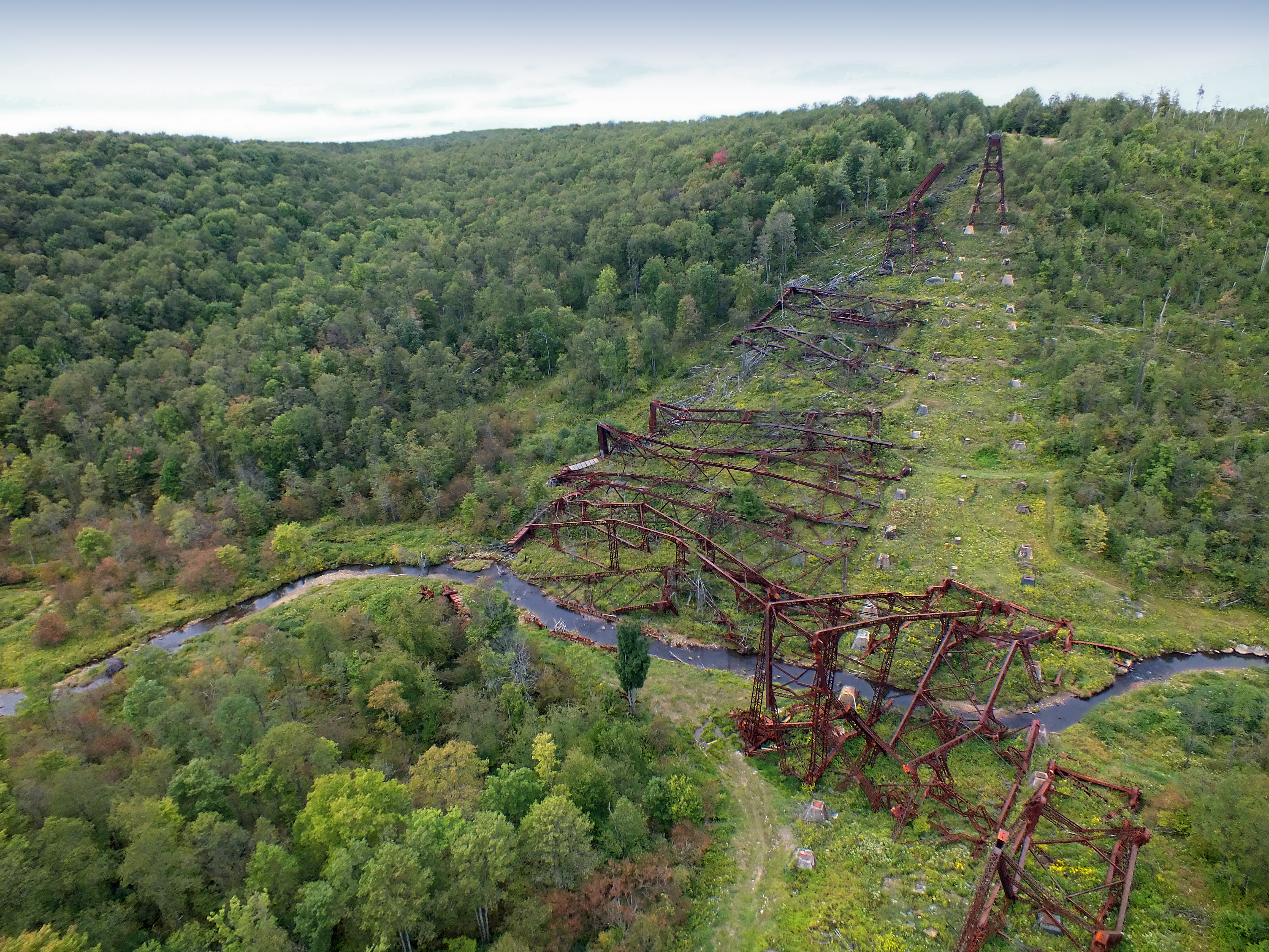 Collapsed portion of the Kinzua Viaduct, Kinzua Creek, and woodlands — in Kinzua Bridge State Park, near Mt Jewett in McKean County, Pennsylvania. A former 1900 railroad bridge spanning the Kinzua Creek Canyon, until a tornado collapsed a large section in 2003. The remaining standing portion of the bridge has recently been converted to a pedestrian walkway, with a glass-bottomed observation deck. Credits nicholas_t Photo of the bridge during my last visit, in 2007, here.